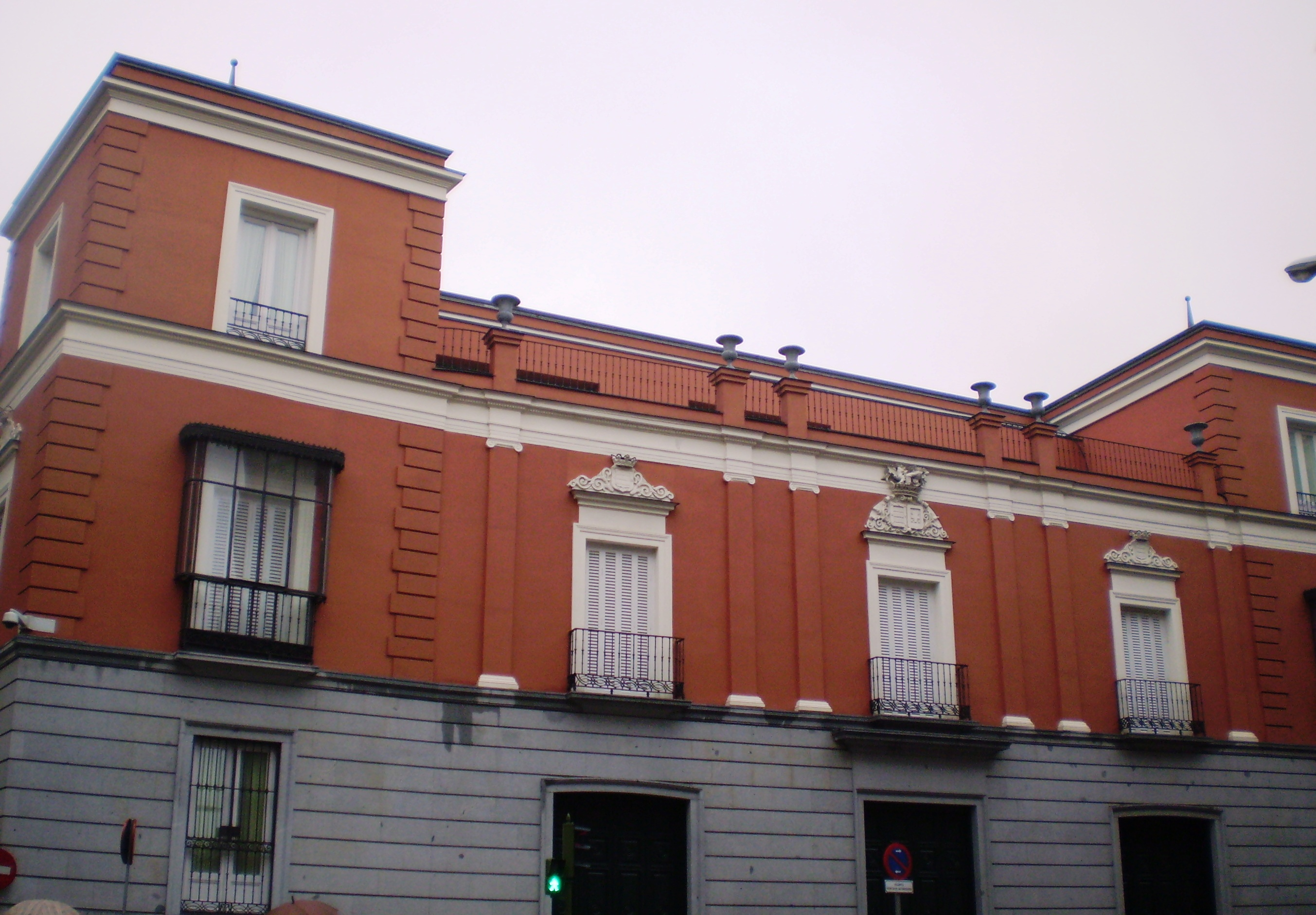 Palace of Duque de Rivas, Madrid, Spain